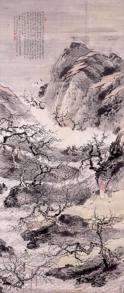 Painting by Tanomura Chikuden, Oita City Art Museum, Oita, Oita, Japan